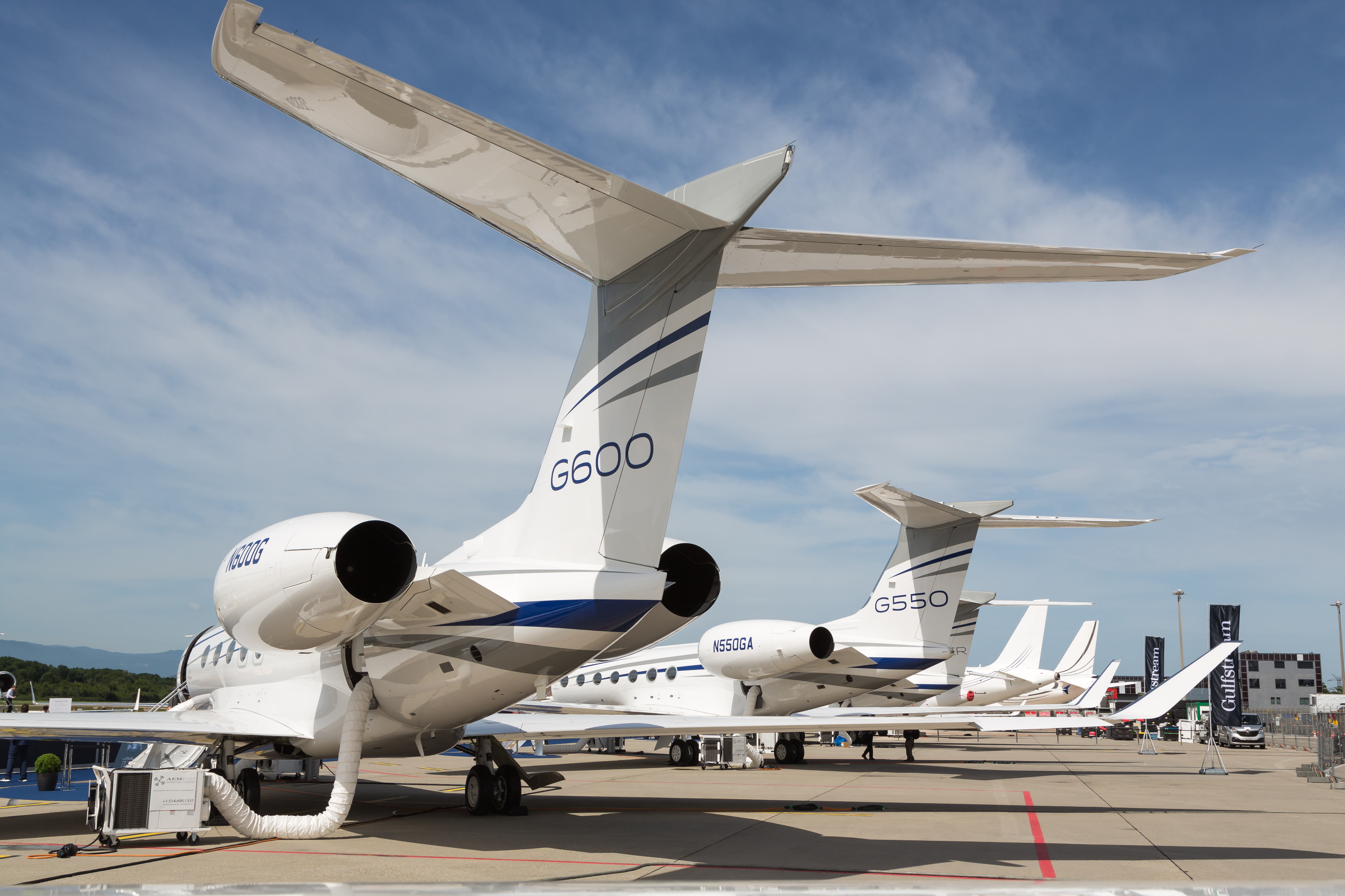 Gulfstream G600, EBACE 2018